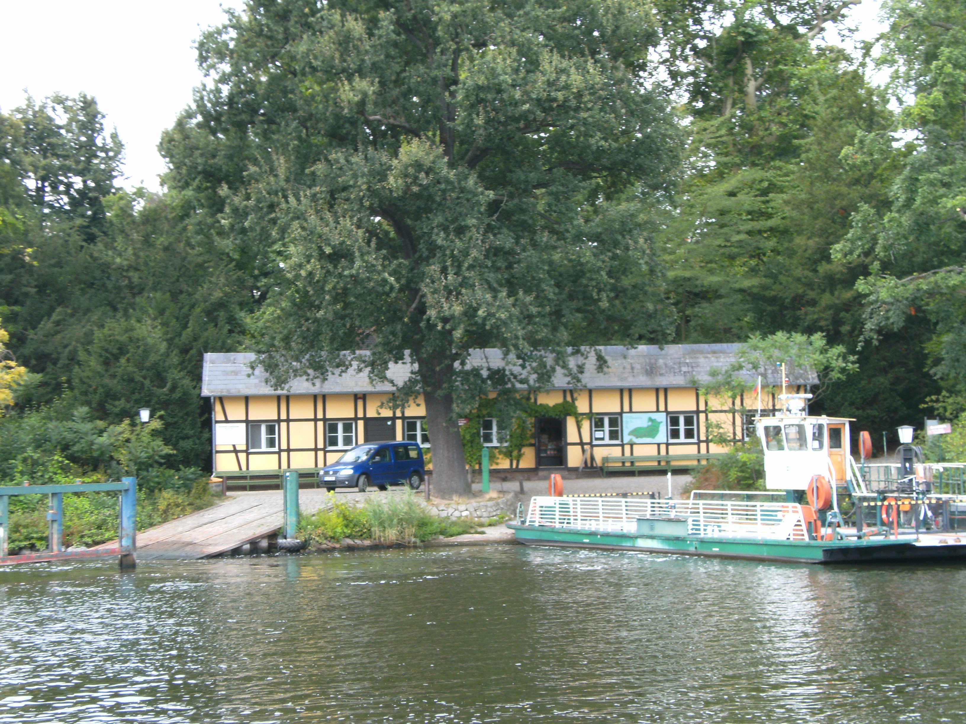 The entrance building on Pfaueninsel Berlin.